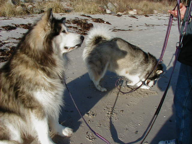 Own photo (author of danish wiki-article on Alaskan Malamute)